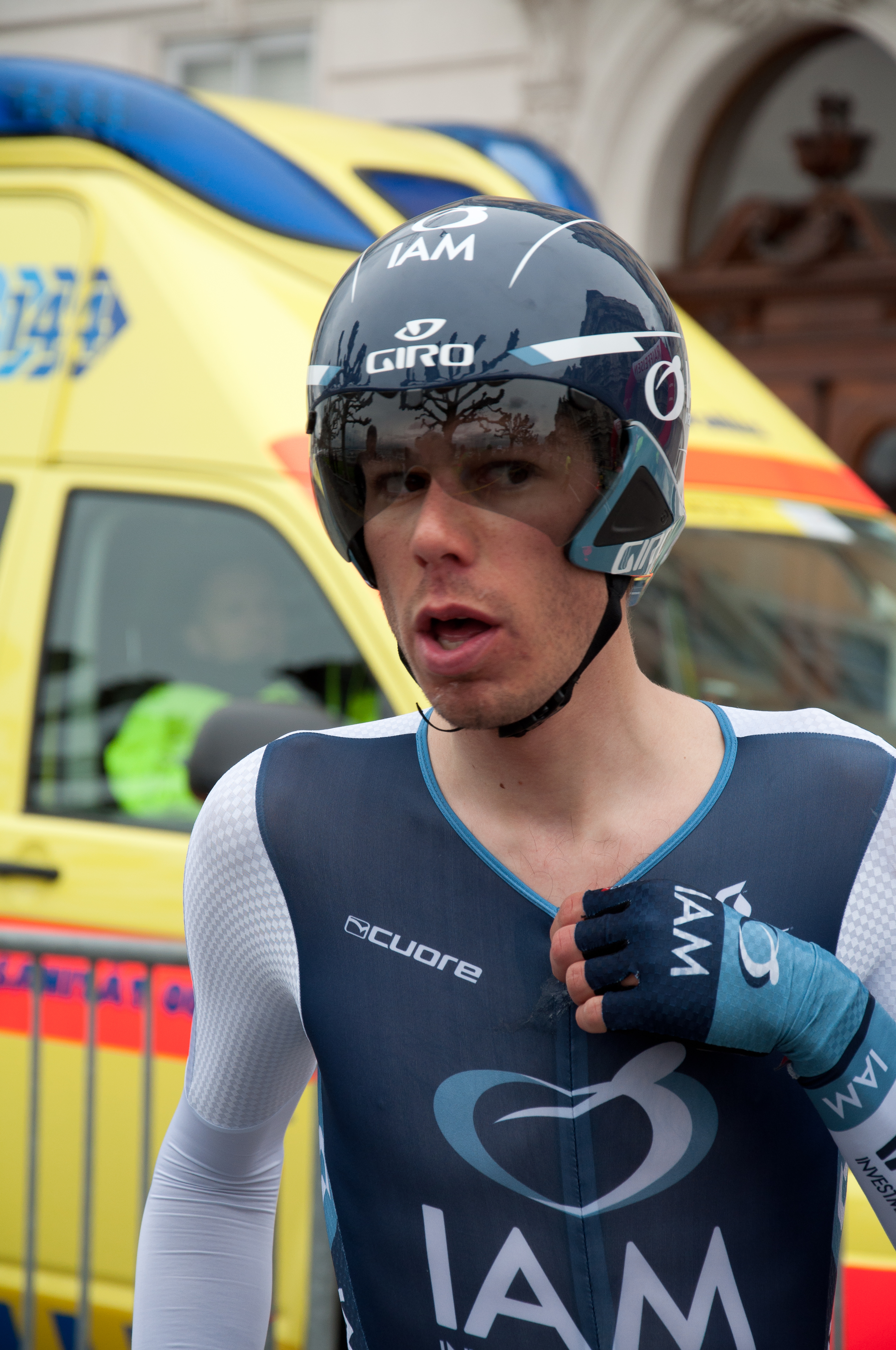 Swiss rider Jonathan Fumeaux, IAM Cycling, after the finish line.